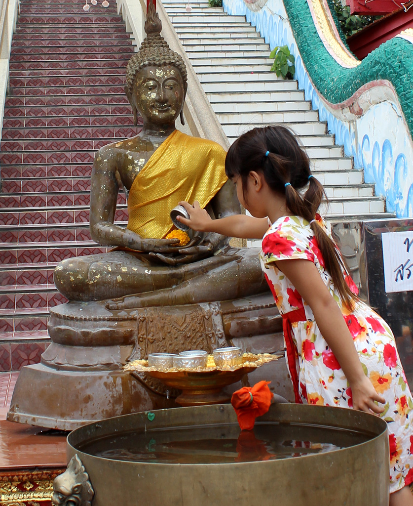 Songkran, cleaning of Buddha figure in front of a Temple (Big Buddha Temple, Koh Samui, 2013)